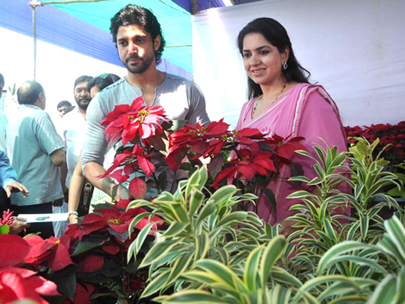 Farhan Akhtar plants a tree with Shaina NC